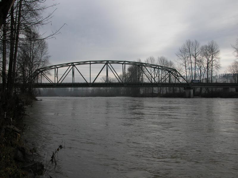 Bridge over the Skykomish River